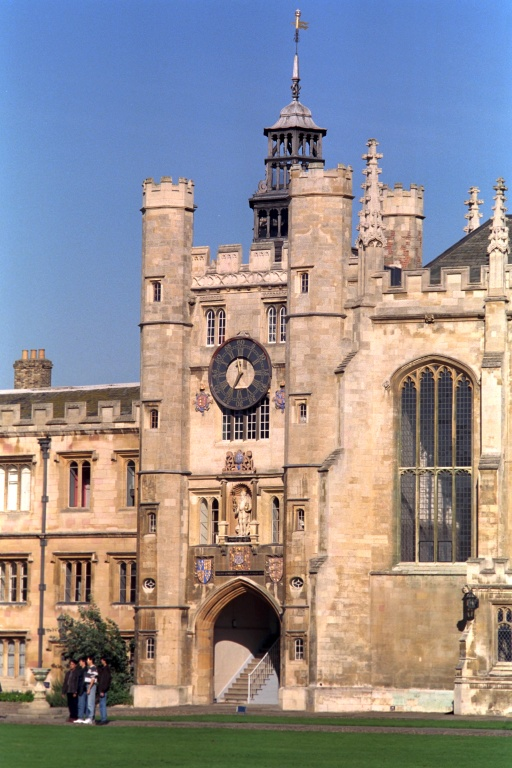 Clock tower of Trinity College, Cambridge. Photo by Bob Tubbs in 1995.